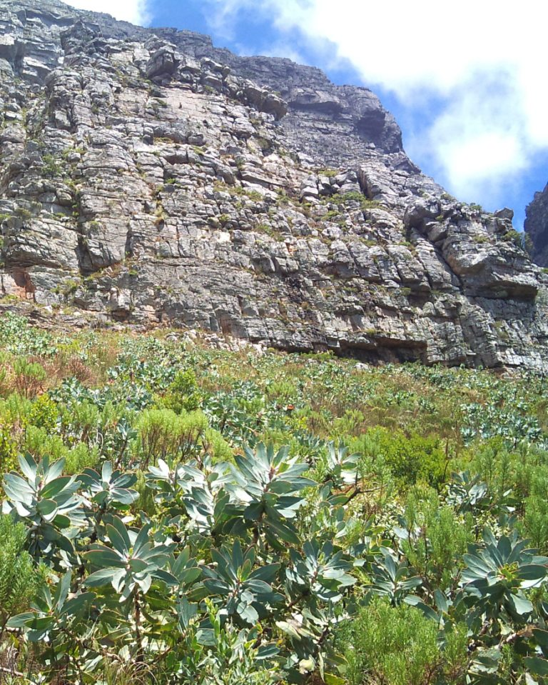 Protea nitida on Table Mountain slopes. South Africa.